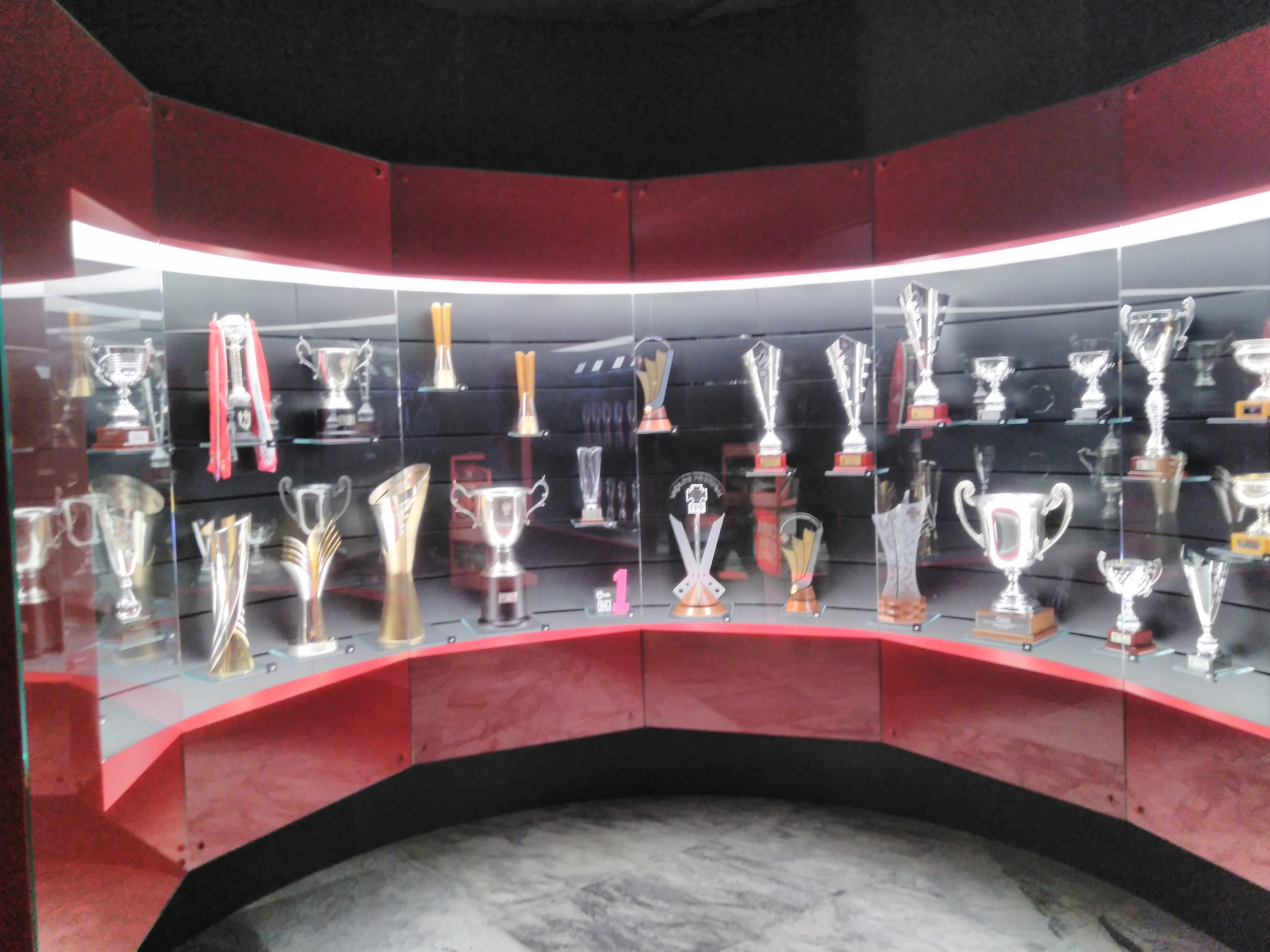 Cabinet of 2017-18 Trophies